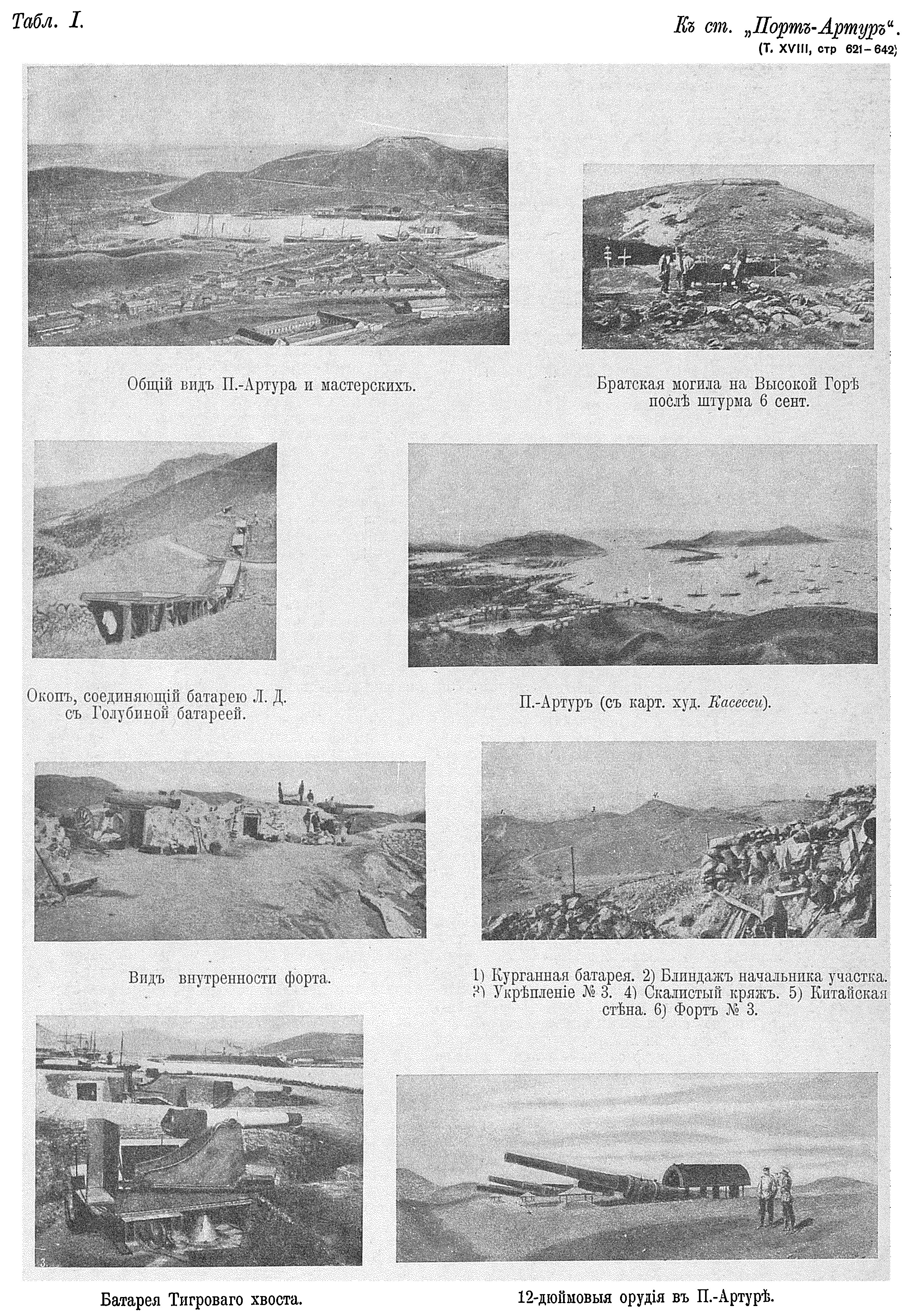 Port Arthur, China Кыргызча: Порт-Артур — Кытайдын сары деңизинде жайгашкан мурунку порттук шаар (тоңбогон порт, аскер-деңиздик база).